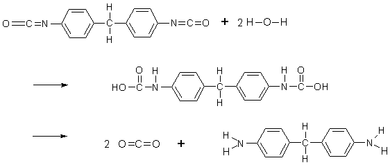 The foaming reaction of polyurethane/Polyuretaanin vaahdotusreaktio